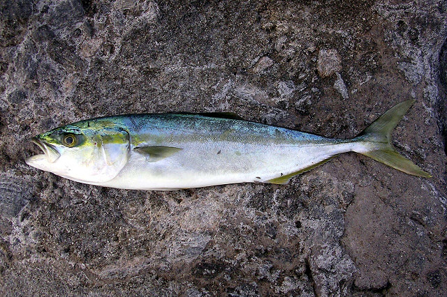 Seriola quinqueradiata (Shikine-island, Tokyo, Japan)